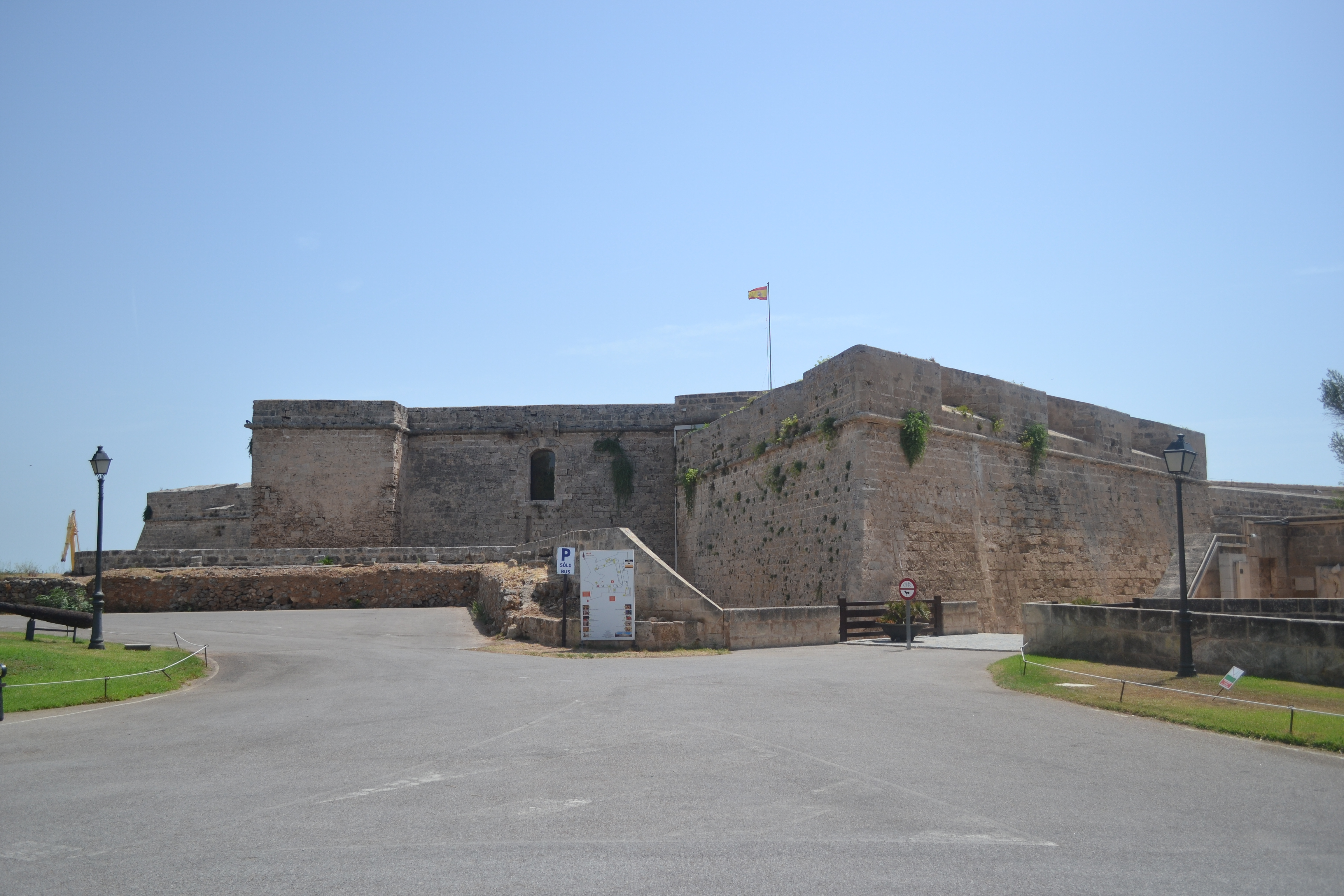 Exterior view of the entrance to the Museum of San Carles.